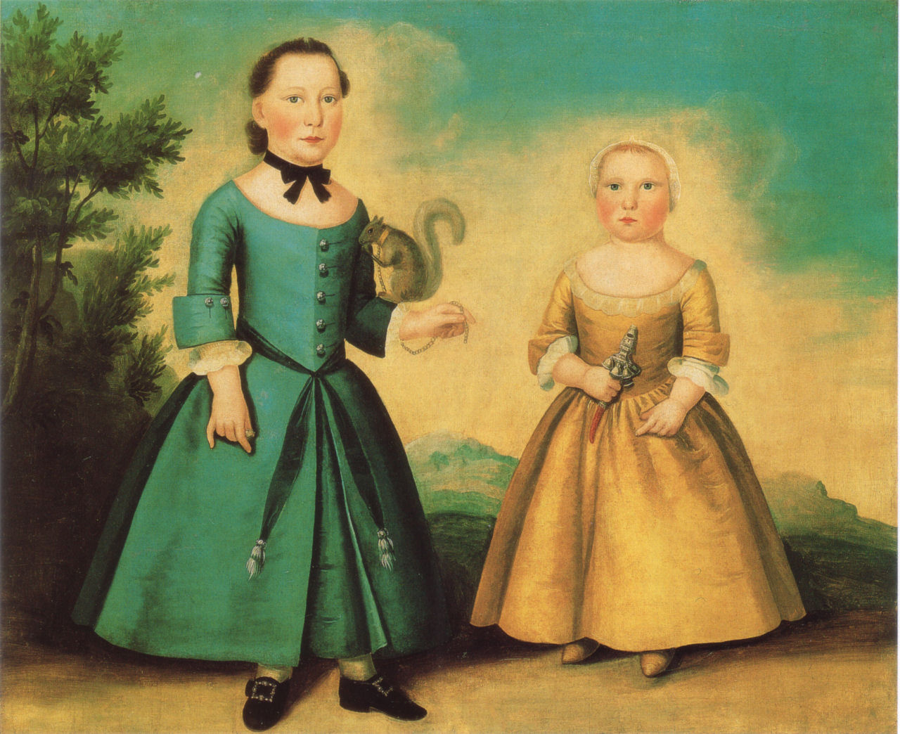 Portrait of two children, a boy on the left with a squirrel and probably a girl on the right, holding a teething coral